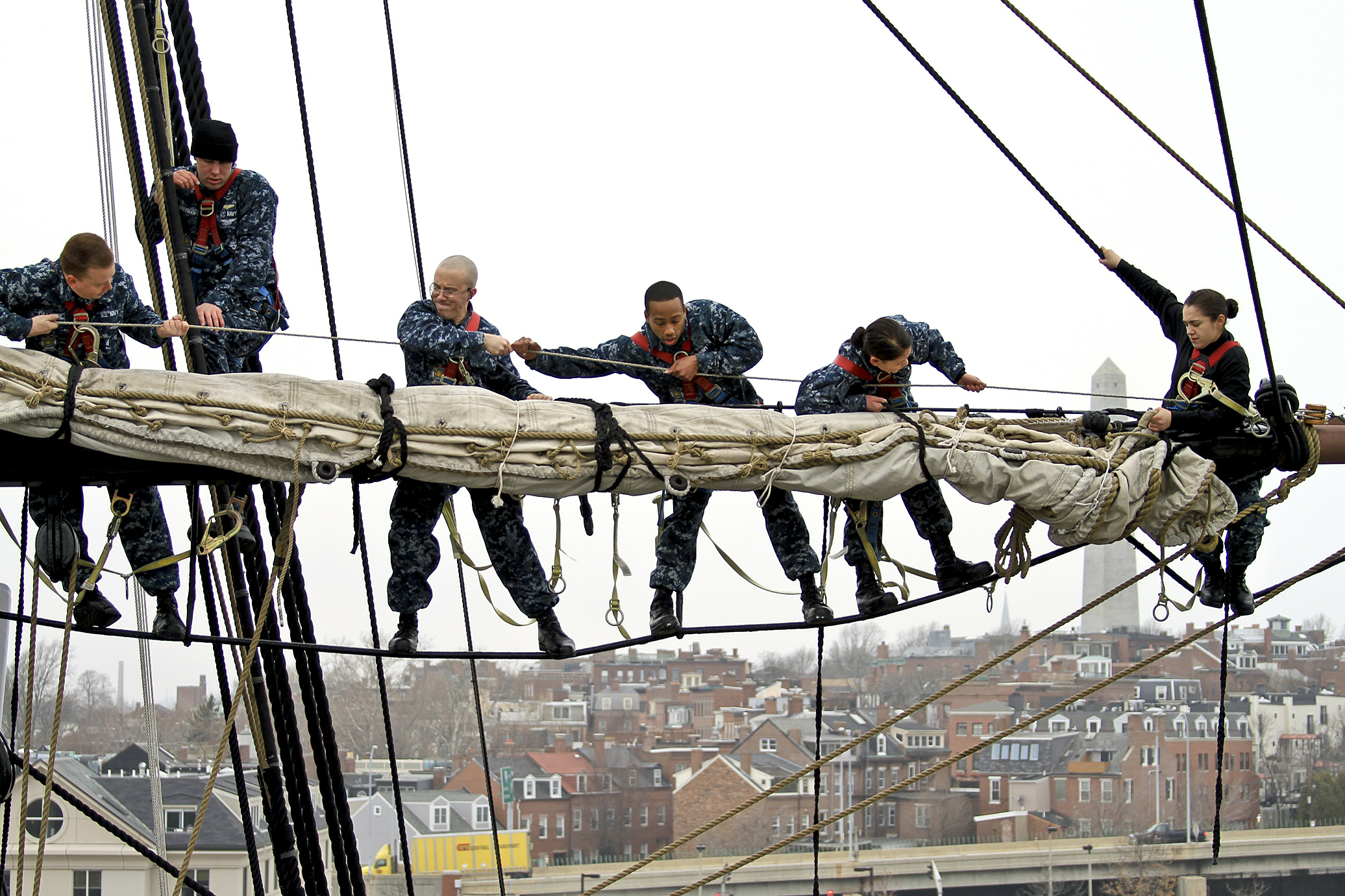 Navy sailors place the sail on the yard of the mizzenmast aboard the USS Constitution in Charleston, Mass., on March 14, 2012. The sailors assigned to the Constitution routinely work to improve seamanship skills to prepare for possibly sailing the ship during the bicentennial of the War of 1812.